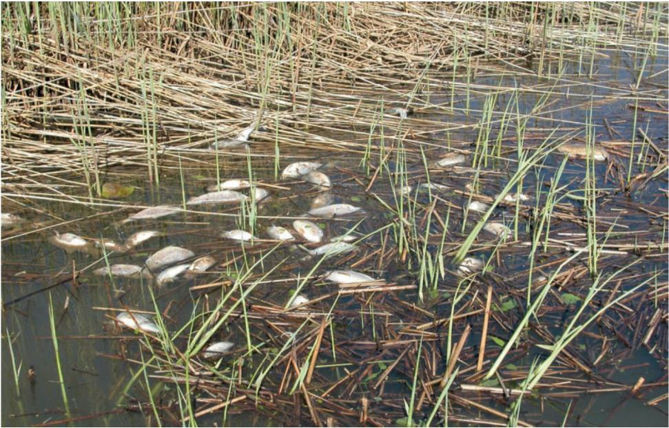 Dead fish caused by acid sulfate soils.